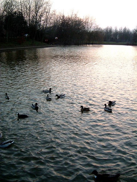 Lake with Ducks, evening. Watermead, Aylesbury. Mallards swam around as the sun set on this lake at Watermead.